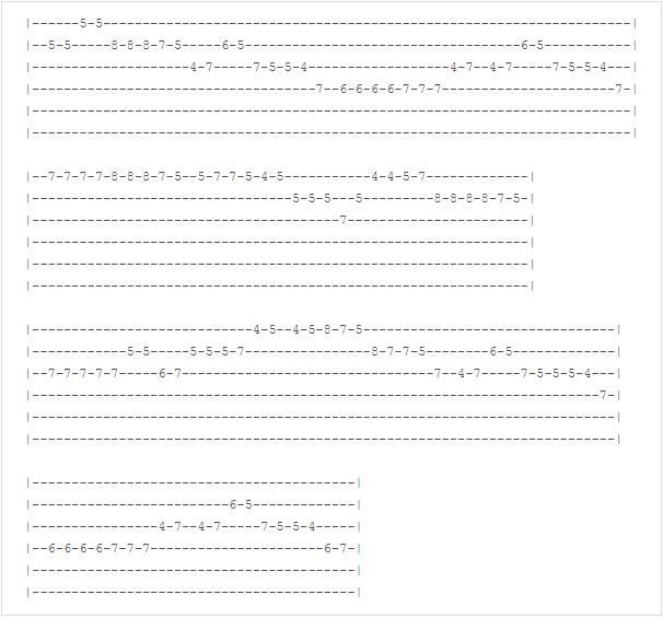 tabs_malshree dhun by namanagni